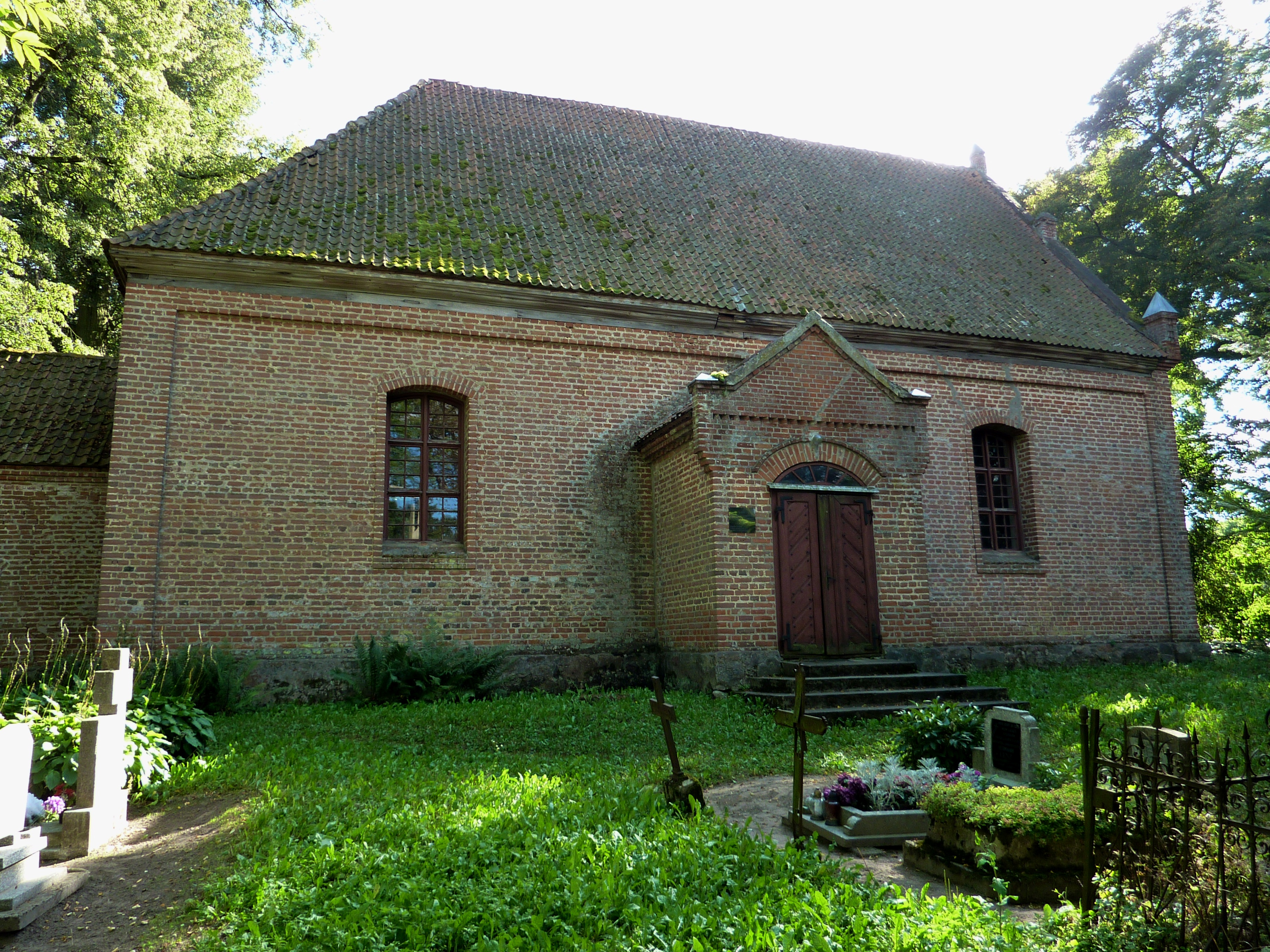 Lutheran church in Łęguty / Poland